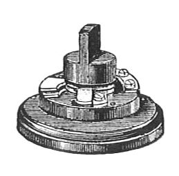 Ebonite switch, 1888 (Forty Years of Electrical Progress).jpg